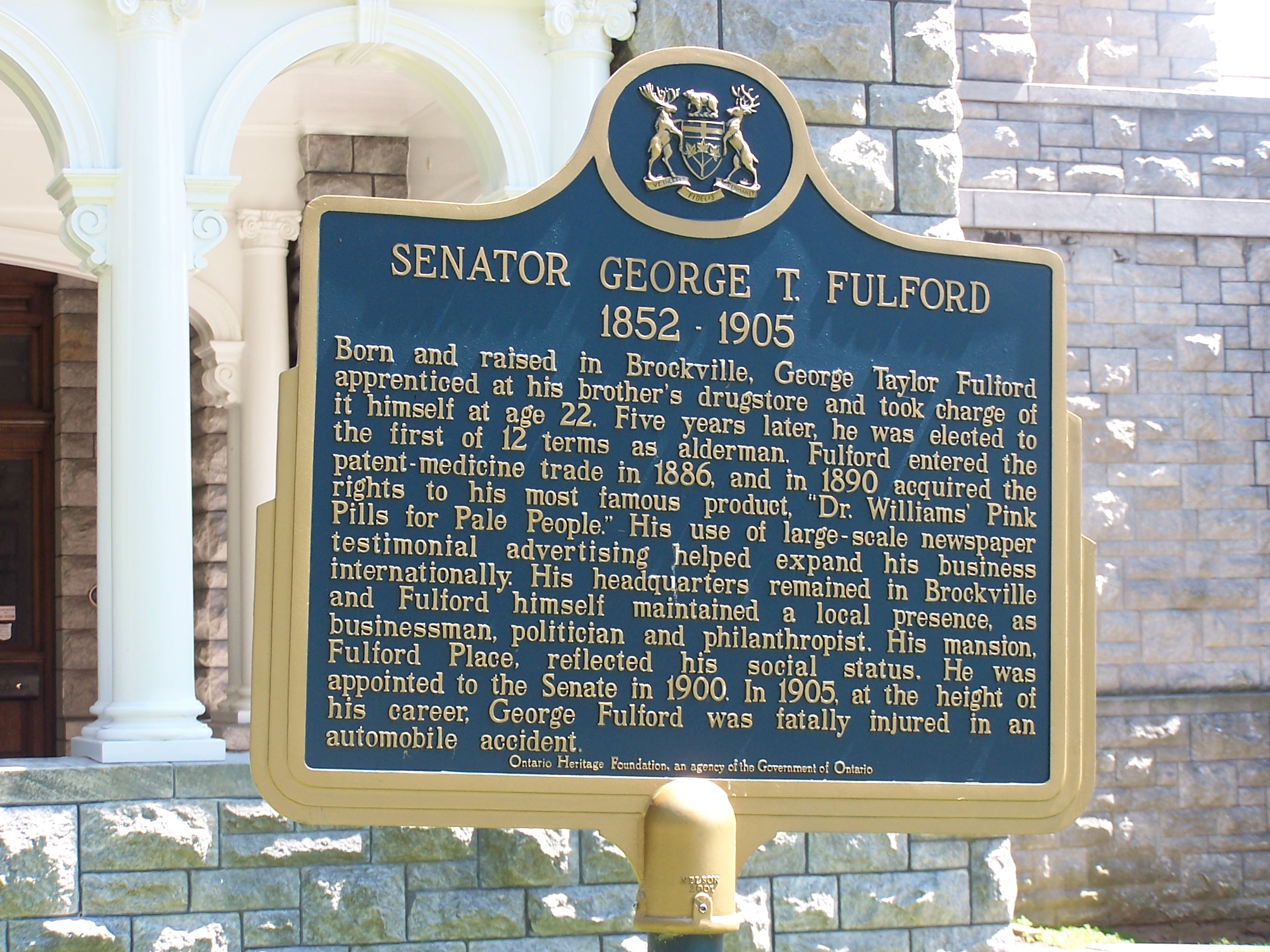 A plaque outside Fulford Place